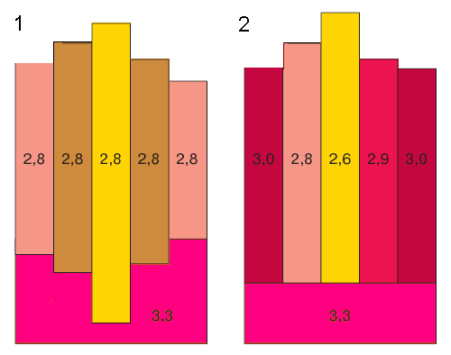 Isostasy models by Airy (left, different topographic heights are accommodated by changes in crustal thickness with constant rock density) Pratt (right, different topographic heights are accommodated by lateral changes in rock density).